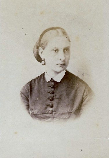 Princess Antonia, Infanta of Portugal. Queen Maria II's daughter.